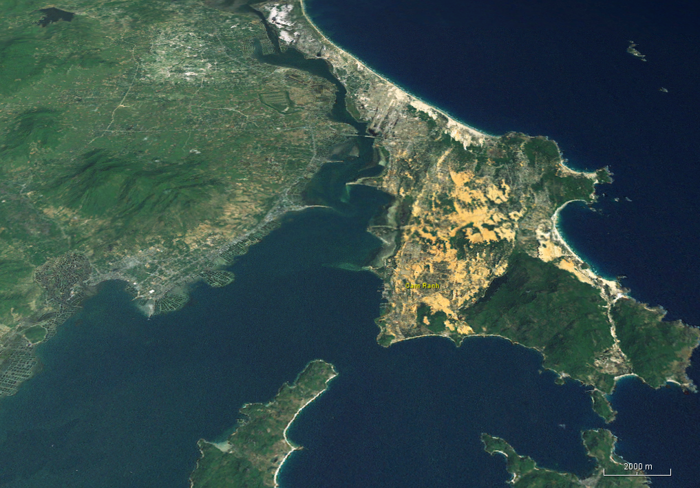 Image showing Cam Ranh Bay in Vietnam. Cropped from the image in NASA Worldwind, Landsat image with elevation information. Image height is 15 km.